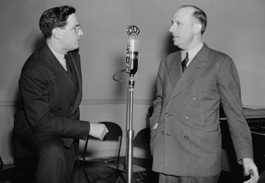 Ted Weems and William Paul Gottlieb, WINX, Washington, D.C., ca. 1940 (Photograph by Delia Potofsky Gottlieb)